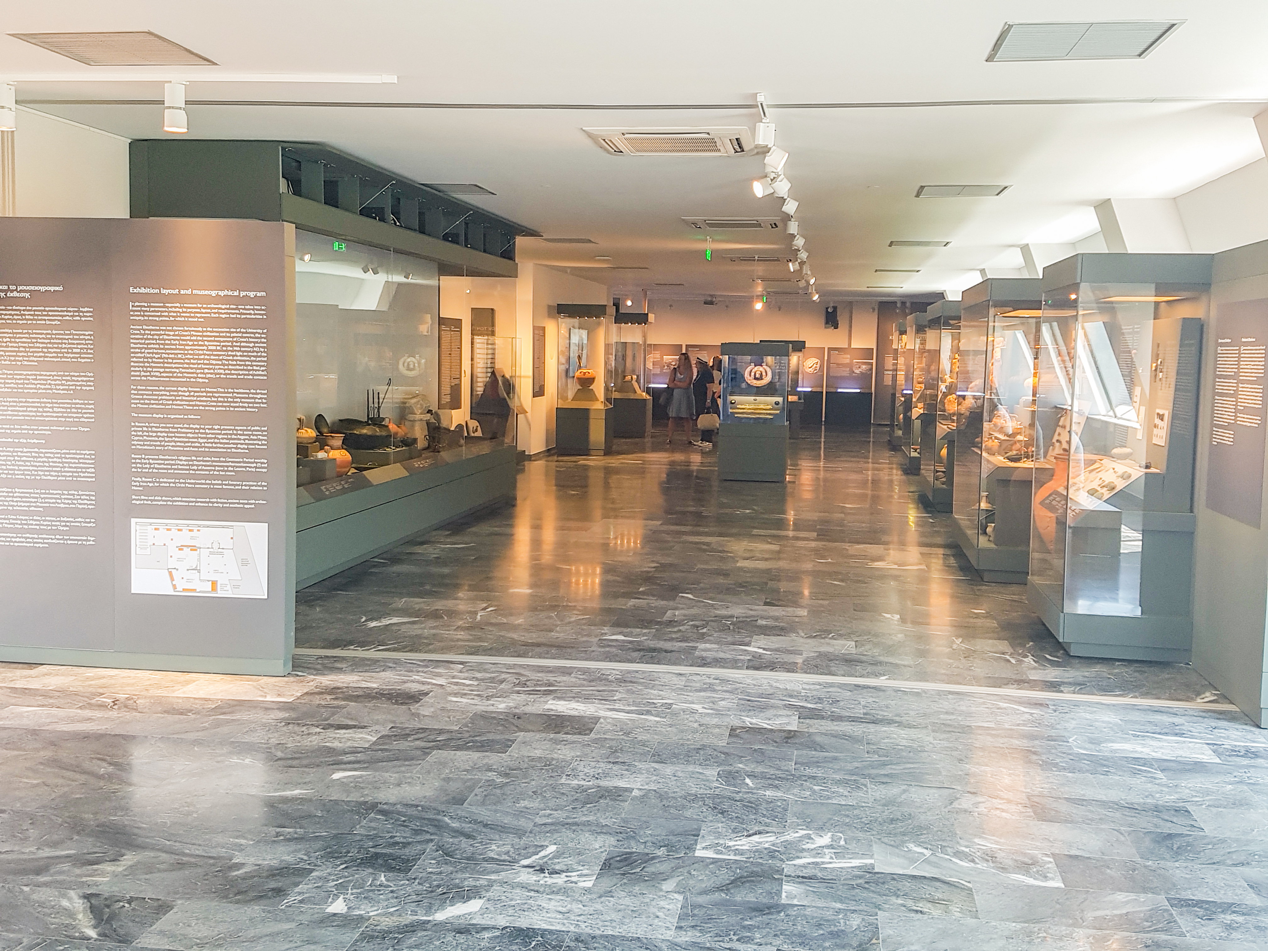 Ancient Eleytherna Museum: Main room